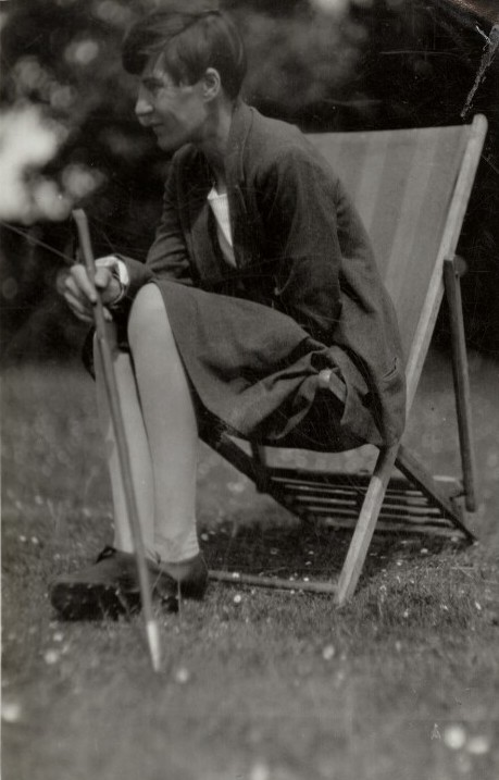 Alix Strachey (née Sargant-Florence) by Unknown photographer. snapshot print enlargement, 3 1/8 in. x 2 1/8 in. (79 mm x 54 mm) image size Purchased, 1979 Photographs Collection NPG Ax24030